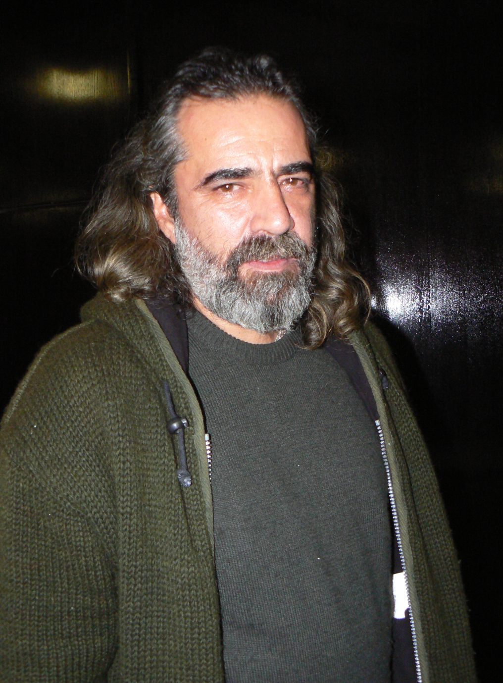 Bulgarian director, screenwriter and actor Andrey Slabakov, on the premiere of his poetical book "Shake after use"